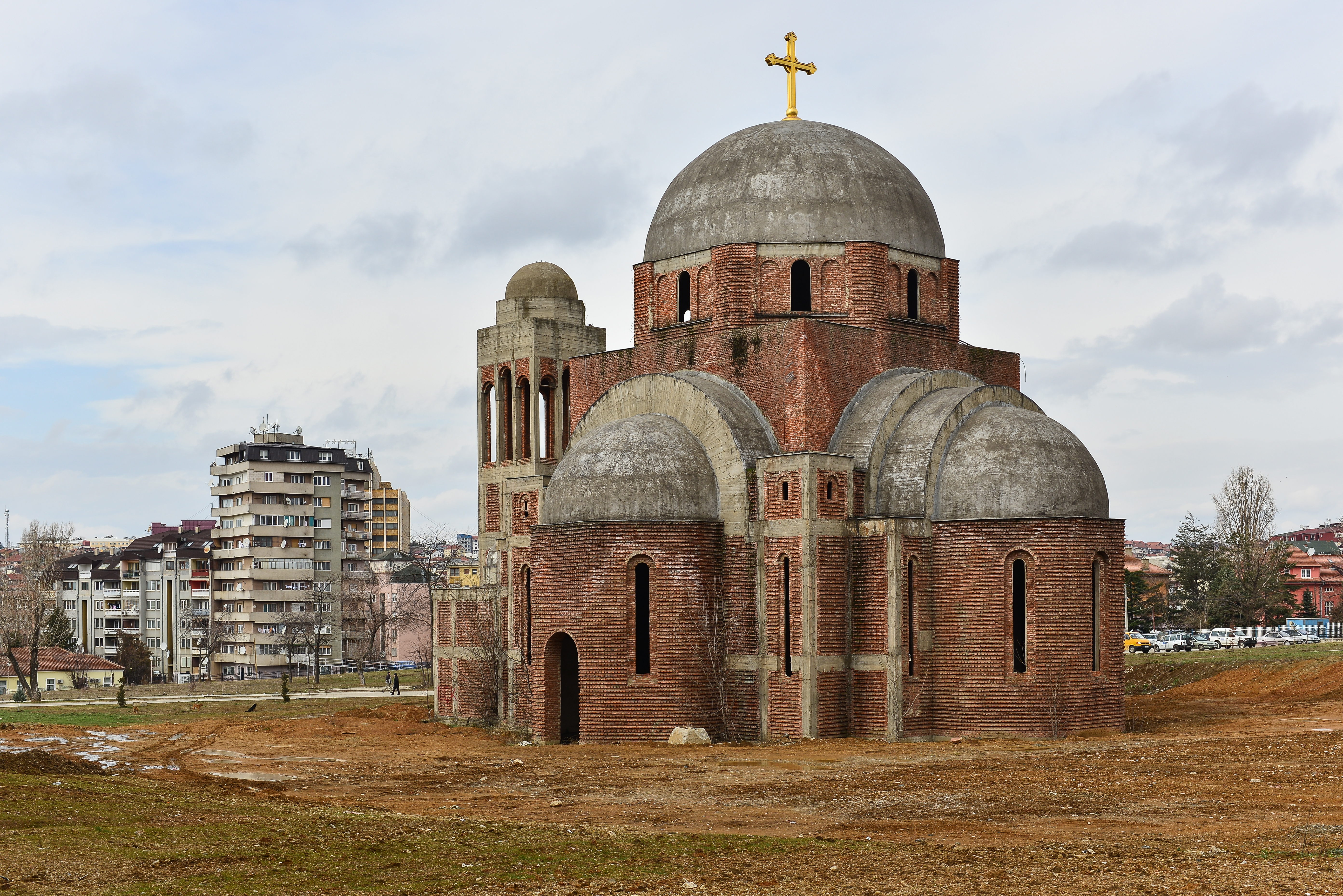 The Christ the Saviour Cathedral in Pristina, Kosovo is an unfinished Serbian Orthodox Christian church started in 1995, due to be competed in 1999, its construction, on the campus of the pre-independence University of Pristina, was interrupted by the Kosovo War. And it remains an empty shell.